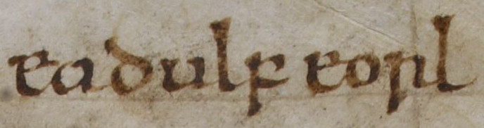 The name of Eadwulf, Earl of Northumbria (died 1041) as it appears on folio 157r of British Library Cotton MS Tiberius B I (the "C" version of the Anglo-Saxon Chronicle): "Eadulf eorl".